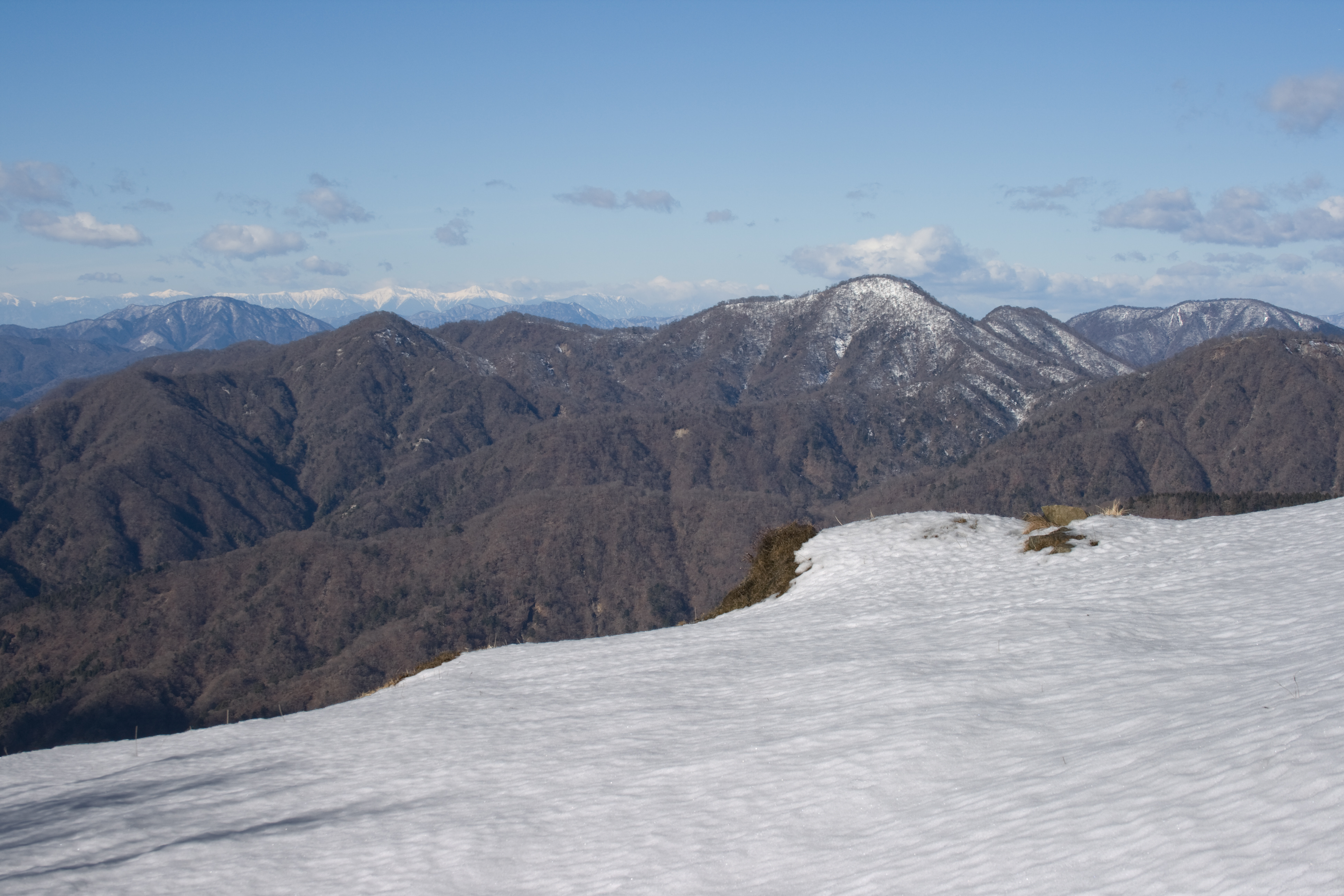 Mt.Hinokiboramaru as seen from Mt.Tonodake in Tanzawa Mountains, Kanagawa prefecture, Japan.